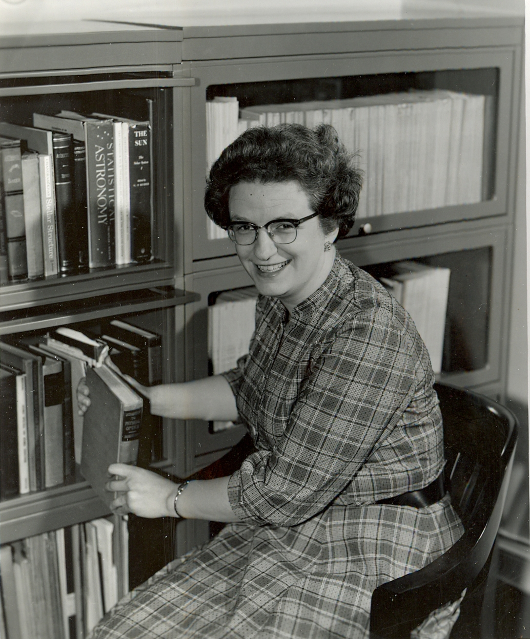 A portrait of Dr. Nancy Grace Roman from NASA's Historical Reference Collection. Unknown date. Credit: NASA